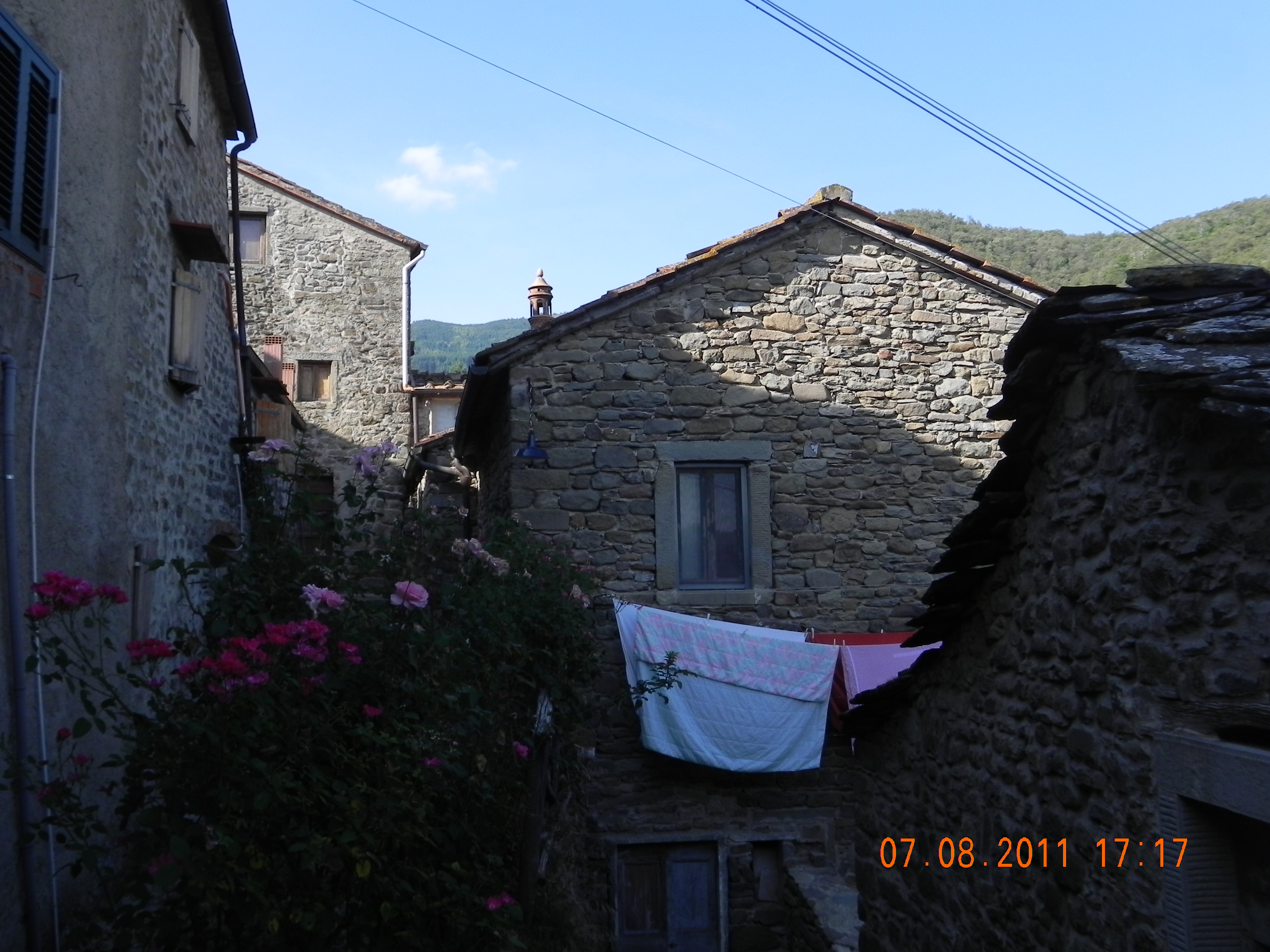 Case di Pratovalle